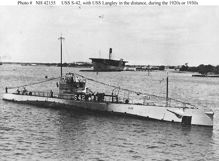 United States Navy submarine at San Diego, California, with aircraft carrier in the background.